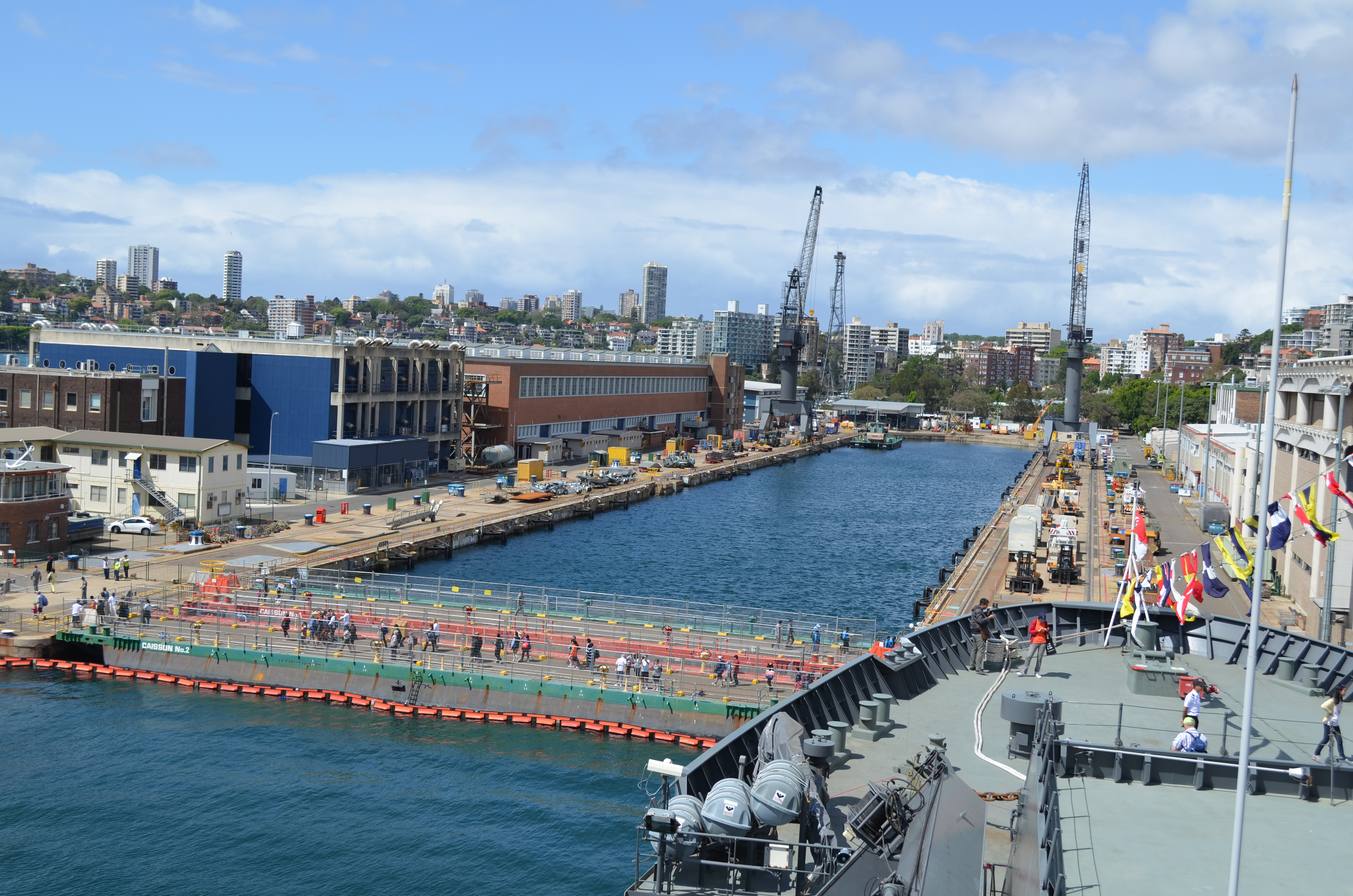 Photographs taken during day 5 of the Royal Australian Navy International Fleet Review 2013. The Captain Cook Graving Dock